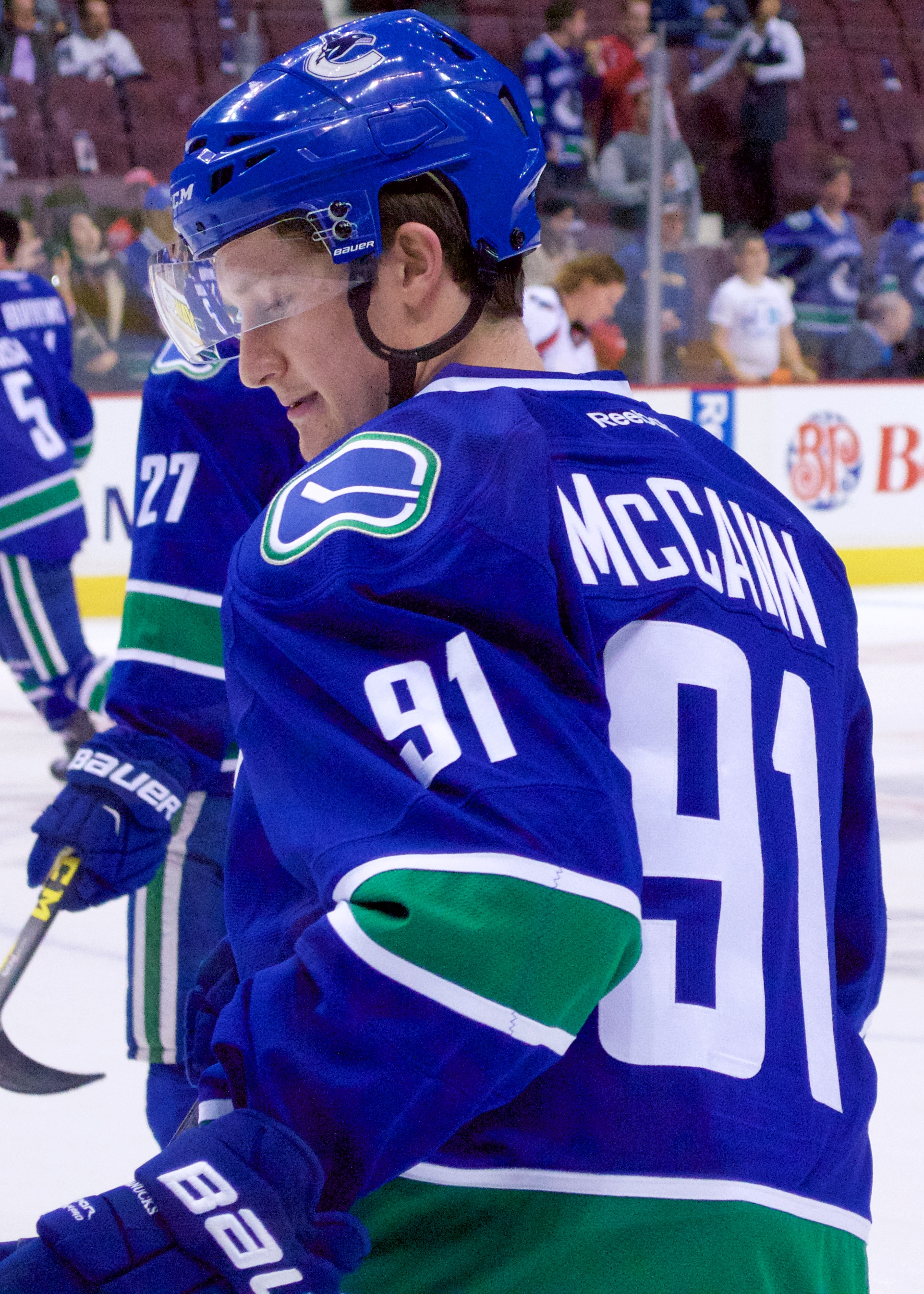 Vancouver Canucks forward Jared McCann during pre-game warmup on October 22, 2015.